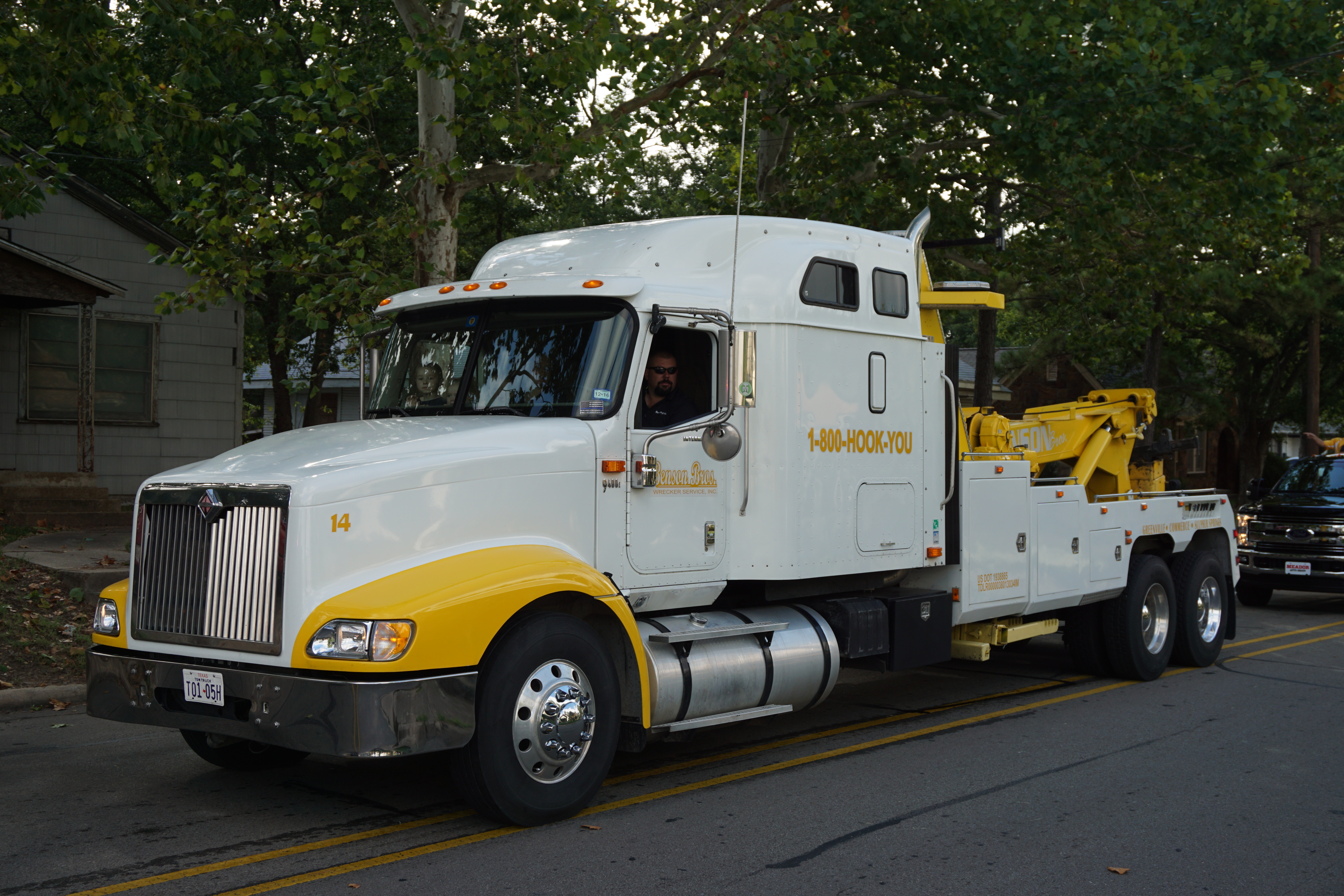 A Benson Bros. Wrecker Service, Inc. International 9400/9400i tow truck in the parade at the 31st Annual Bois d'Arc Bash in Commerce, Texas (United States).